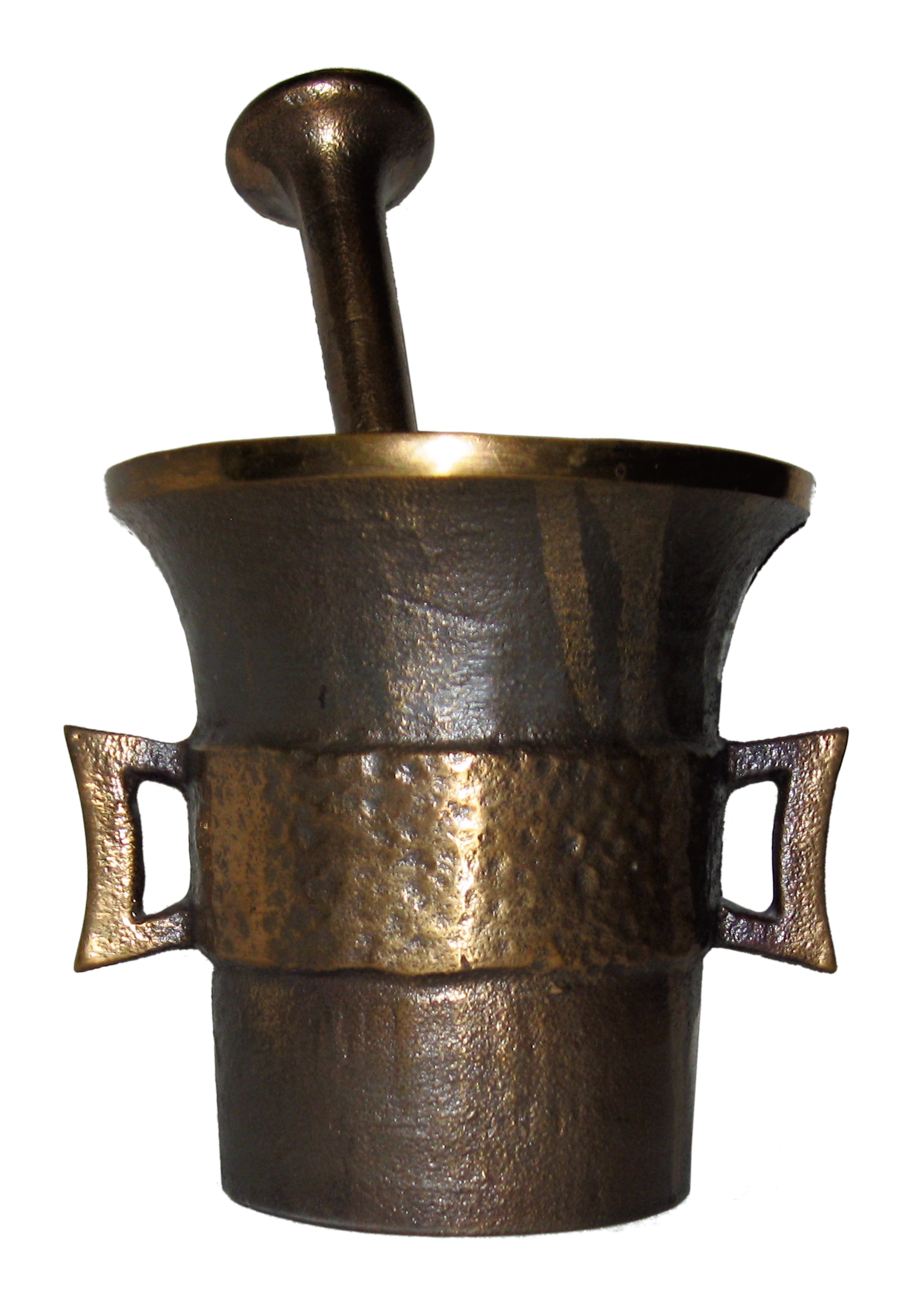 Mortar and pestle as formerly used in pharmacy and household. Produced in bigger quantities and sold in better gift-shops. Sand casting, bronze-type copper-alloy.